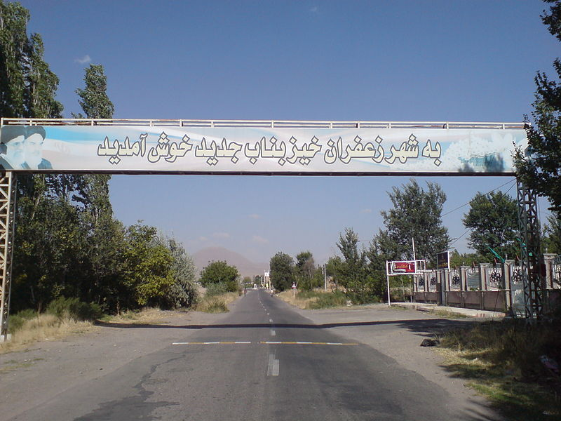 the west way of the benab